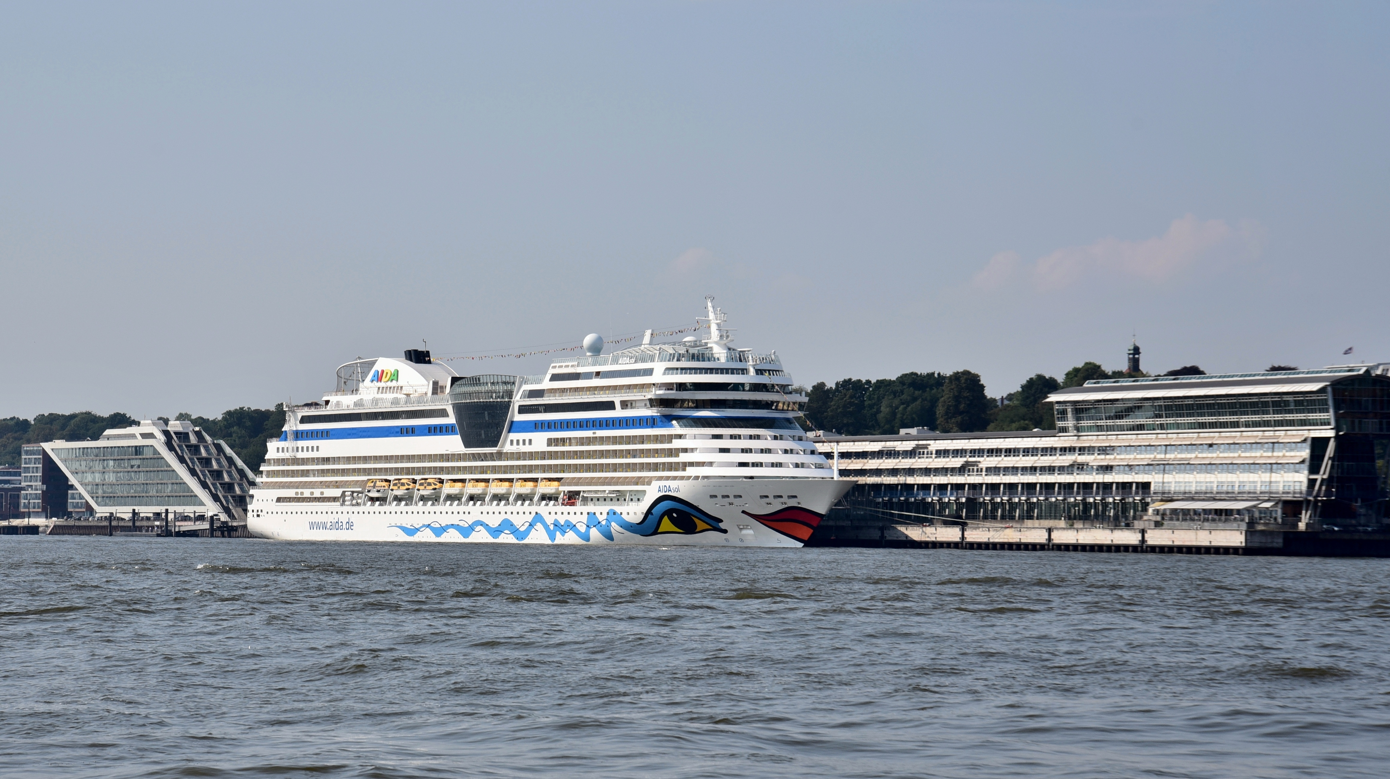 The cruise ship AIDAsol, berthed at the Hamburg Cruise Center Altona